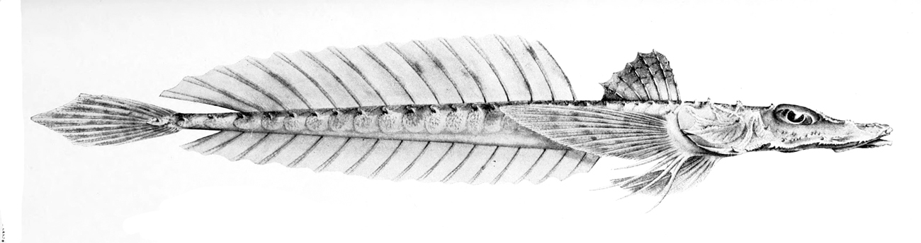 Hoplichthys ogilbyi